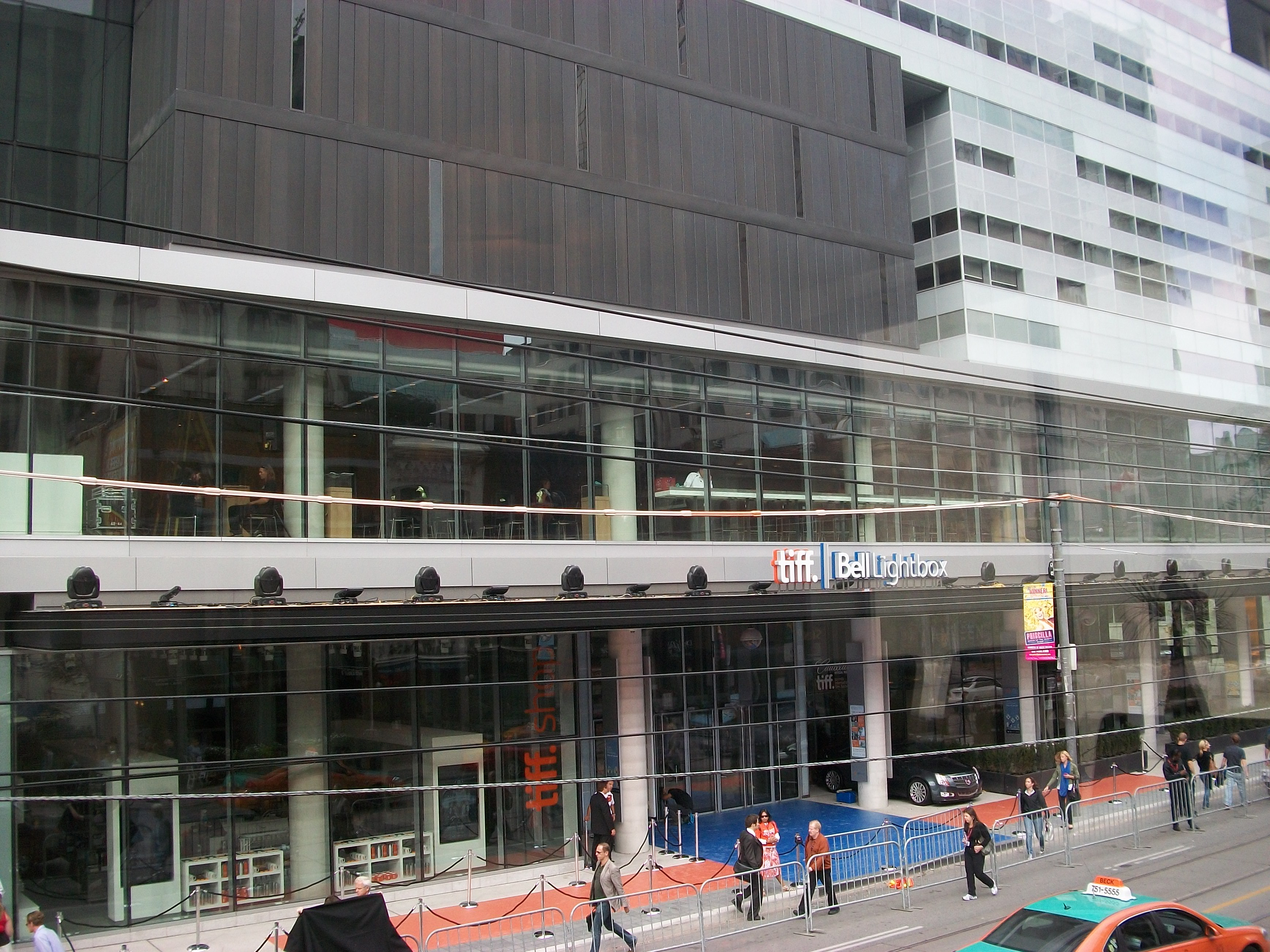 TIFF Bell Lightbox, one day before its official opening, shot from Dhaba Restaurant across the street.